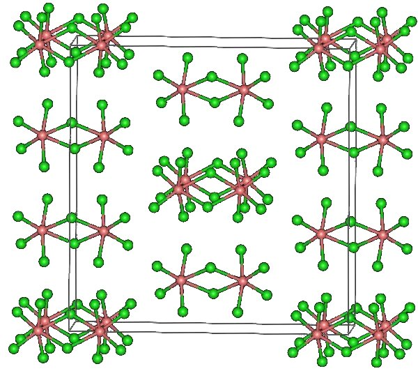 TaCl5. Green atoms are chlorine Journal = ZKNSFT, Year = 2000, Volume = 215, Page = 1–2, Authors = Rabe S., Müller U.